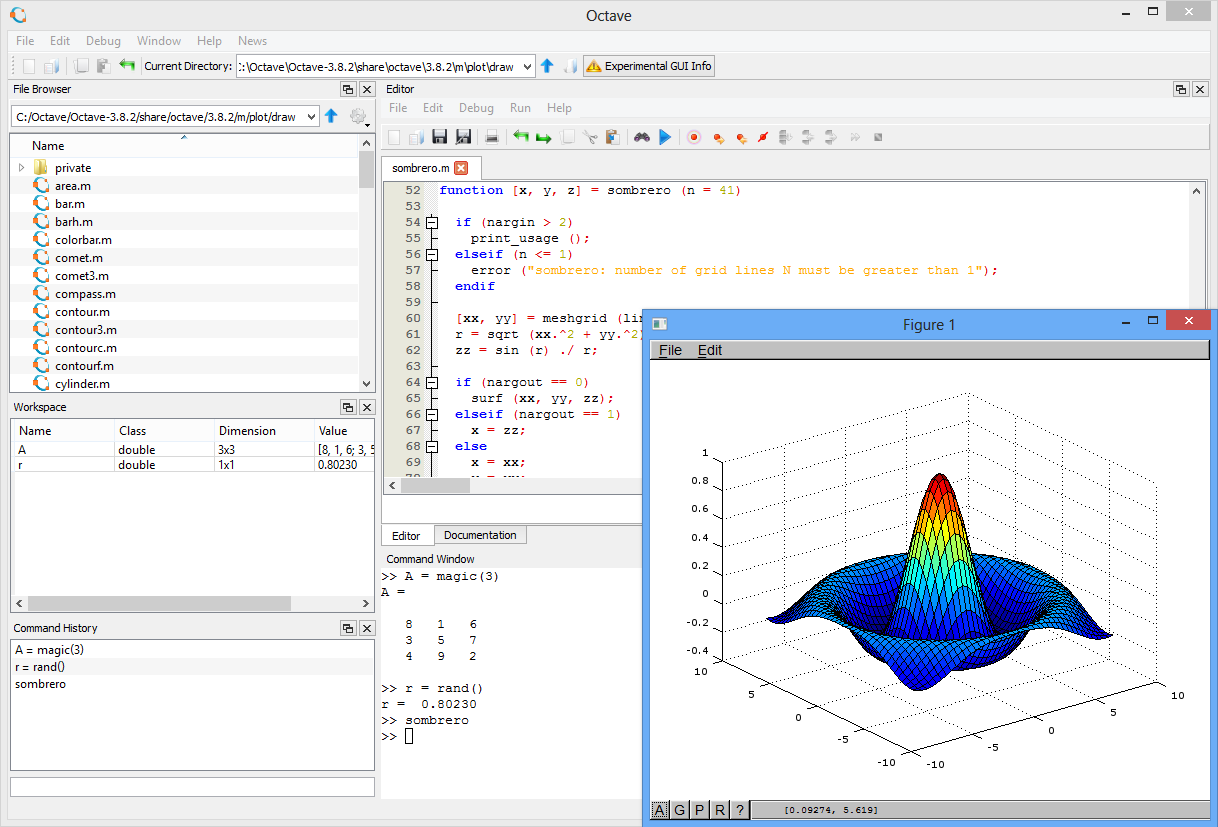 Screenshot of the experimental GUI of Octave 3.8.2 in English language